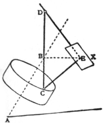 Heliostat